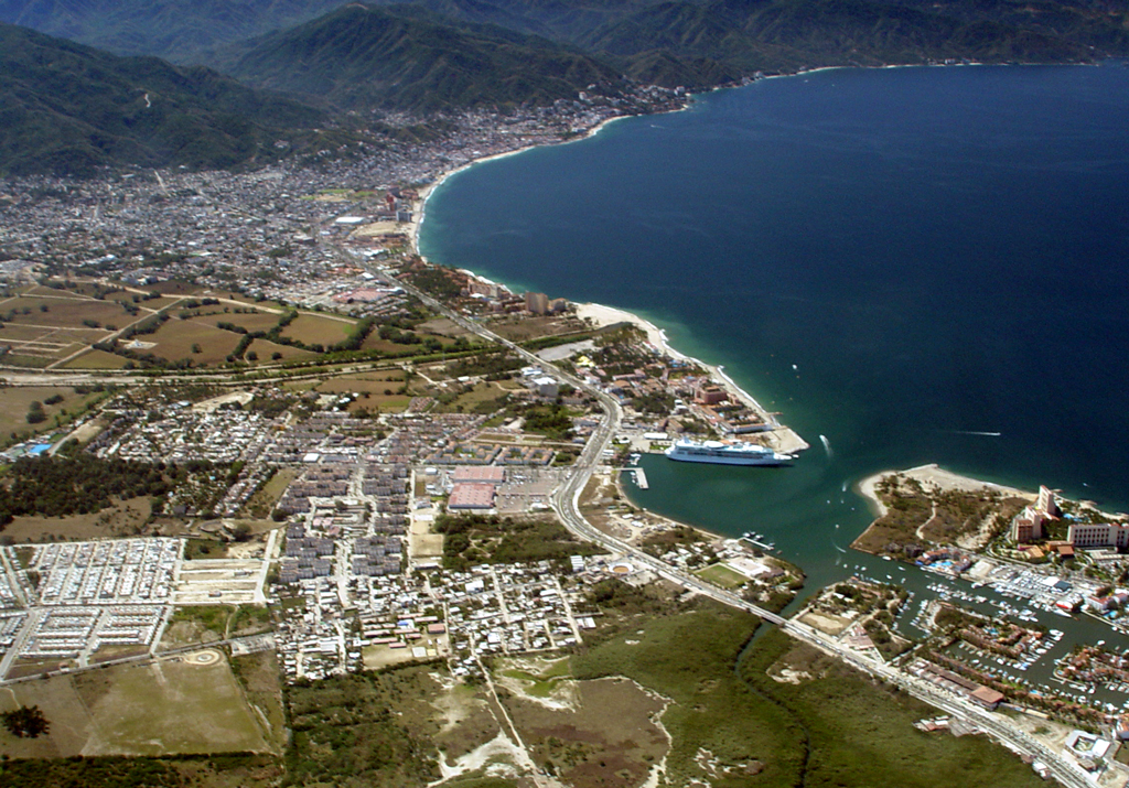 Aerial view of marina, cruise ship terminal and town of Puerto Vallarta, Jalisco - Mexico 2004 - P. Alejandro Díaz